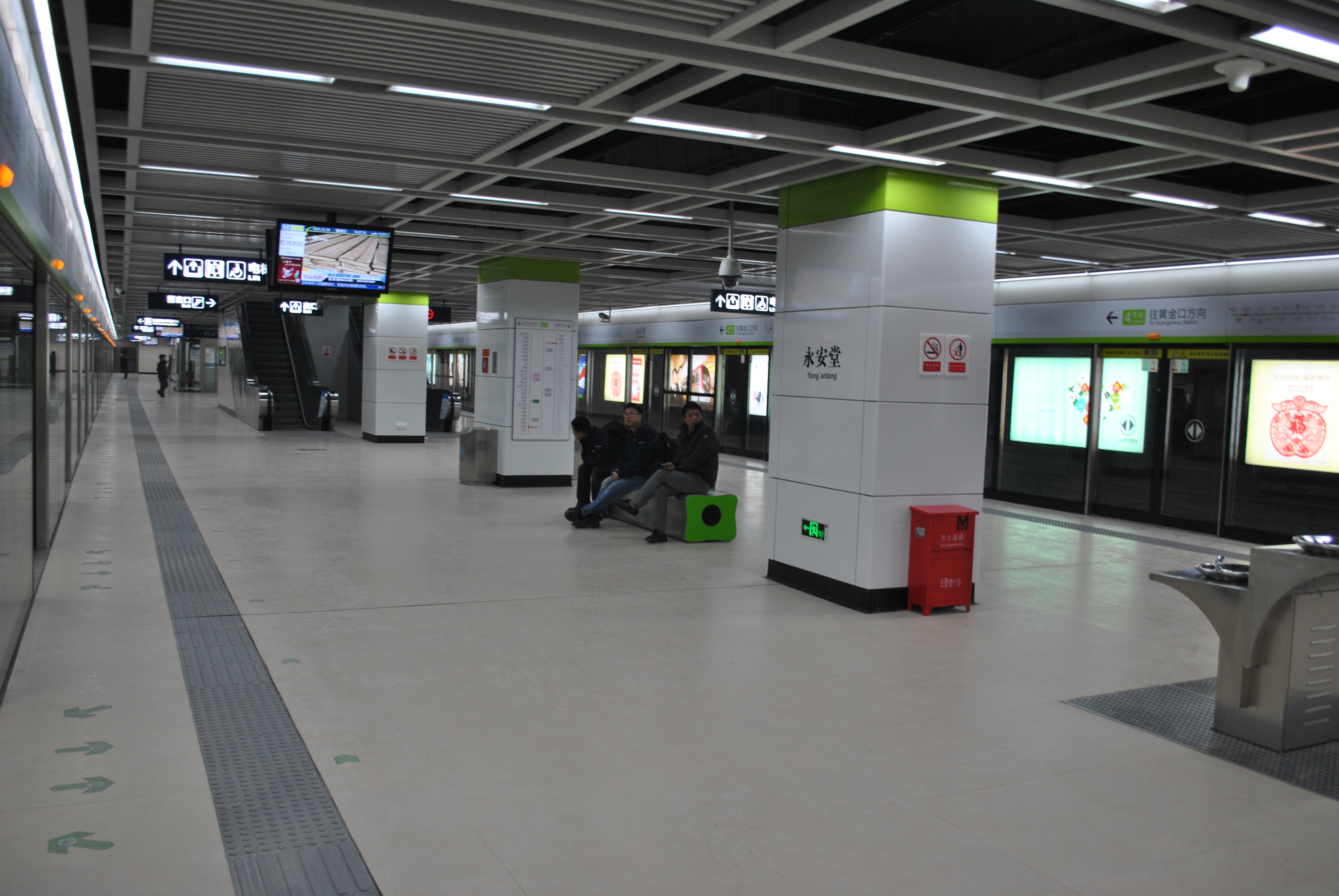 Yongantang Station